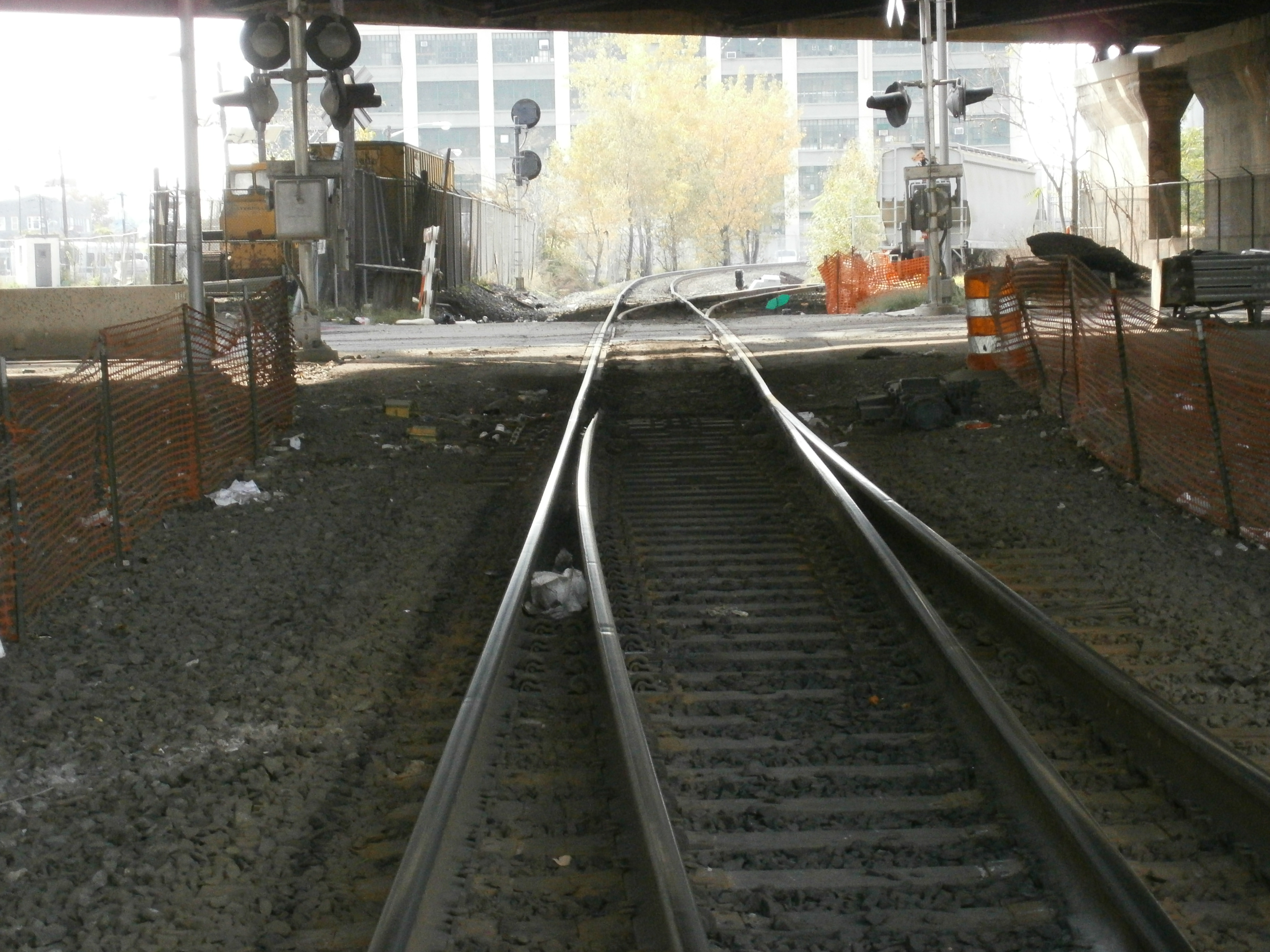 Under Pulaski Skyway looking south to to single track Northern Running Line to Marion Junction in Jersey City